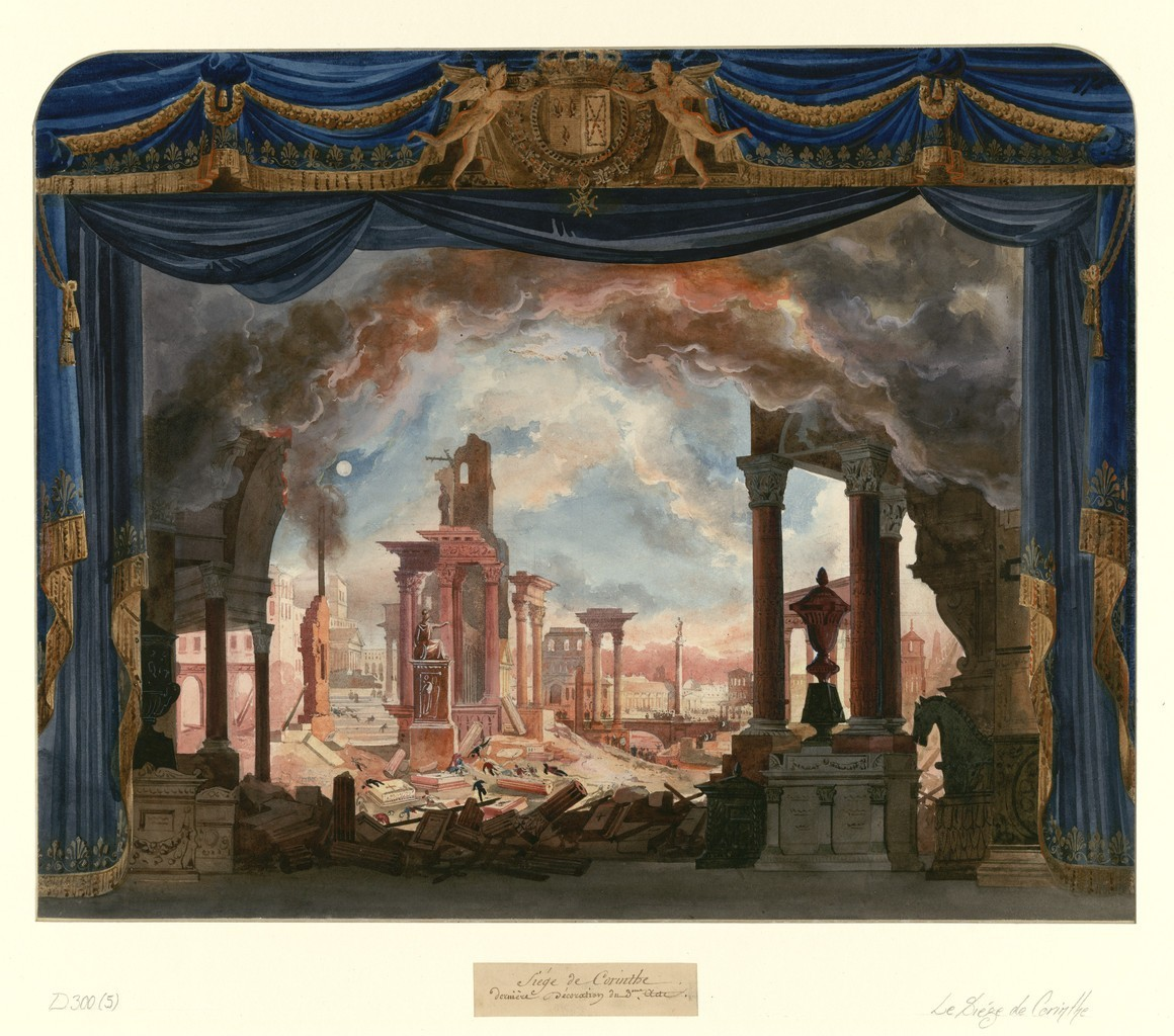 Rossini - Le siège de Corinthe - Auguste Caron - Paris 1826 - acte III, scène finale, incendie de Corinthe Académie Royale de Musique-Le Peletier, 09-10-1826 1 dess. : aquarelle avec rehauts de gouache ; 318 x 405 mm